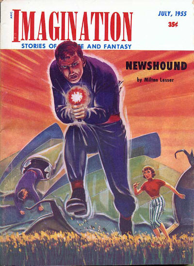 Cover of Imagination, July 1955